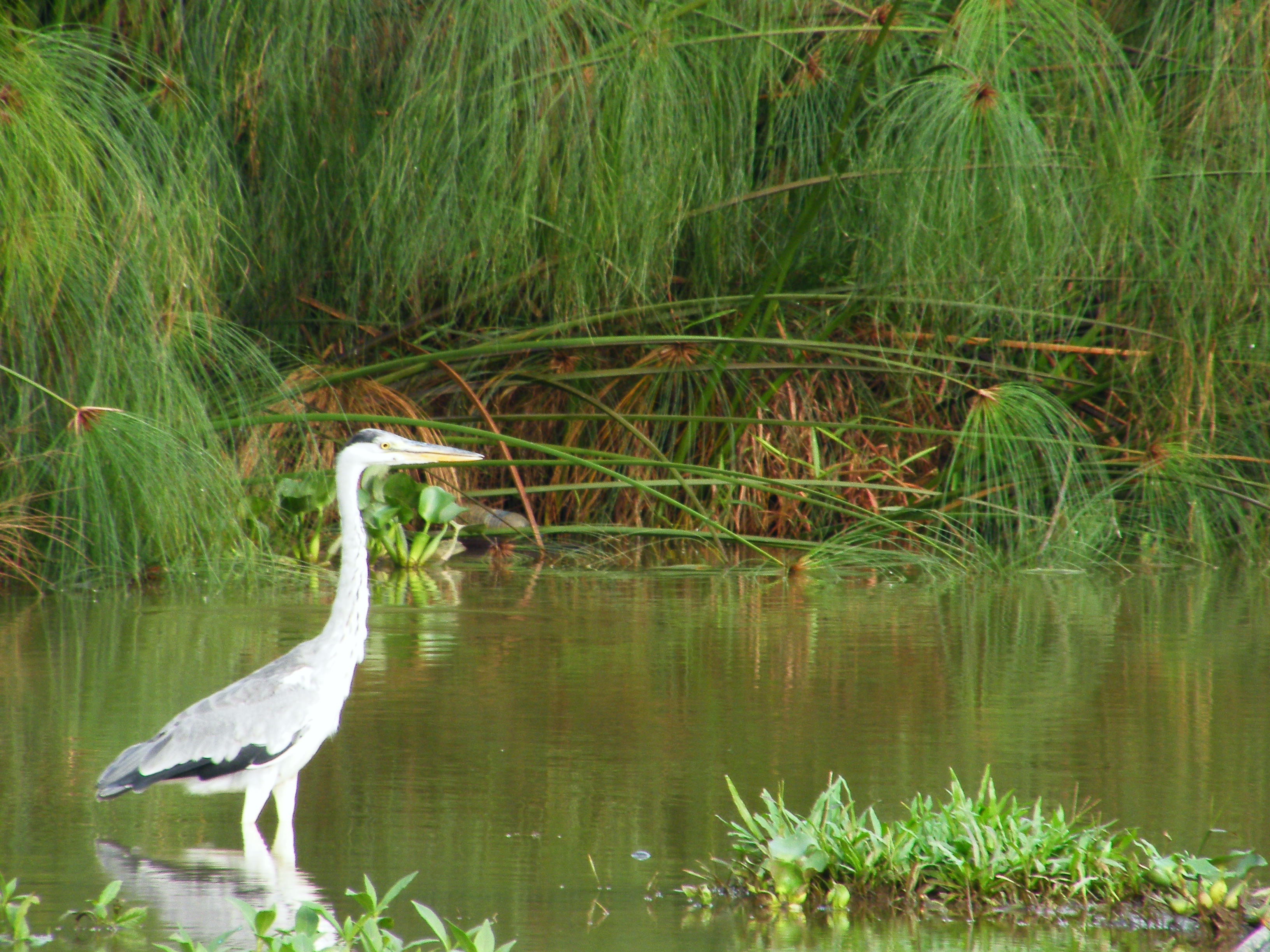 Bangau @ UTM